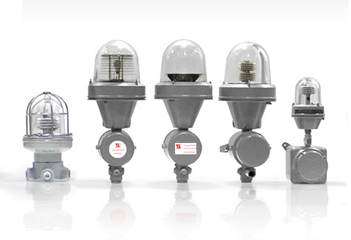 Low and medium intensity explosion proof obstruction lights